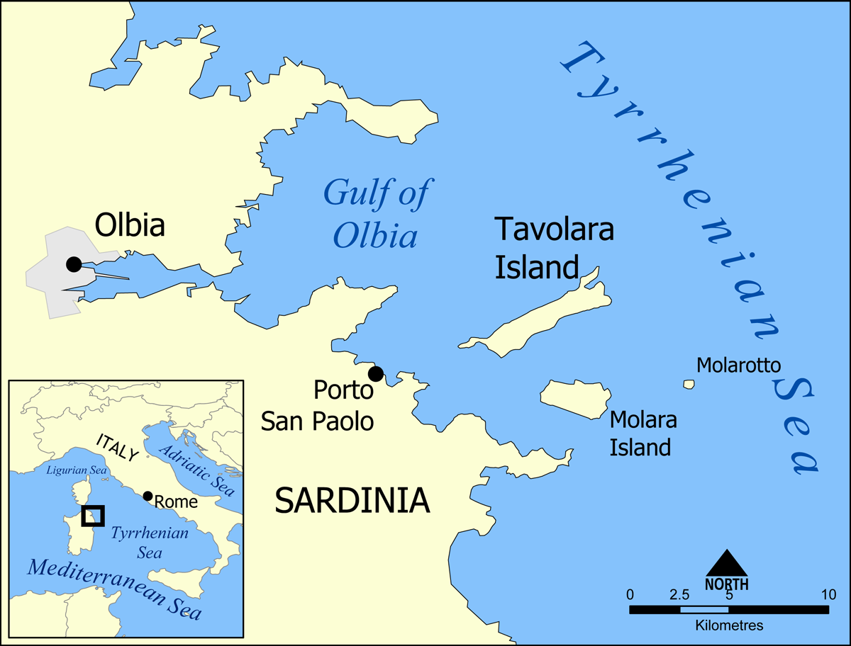 This is a map showing the location of Tavolara Island and Molara Island, off the coast of Sardinia, Italy. Created by NormanEinstein, May 17, 2005.